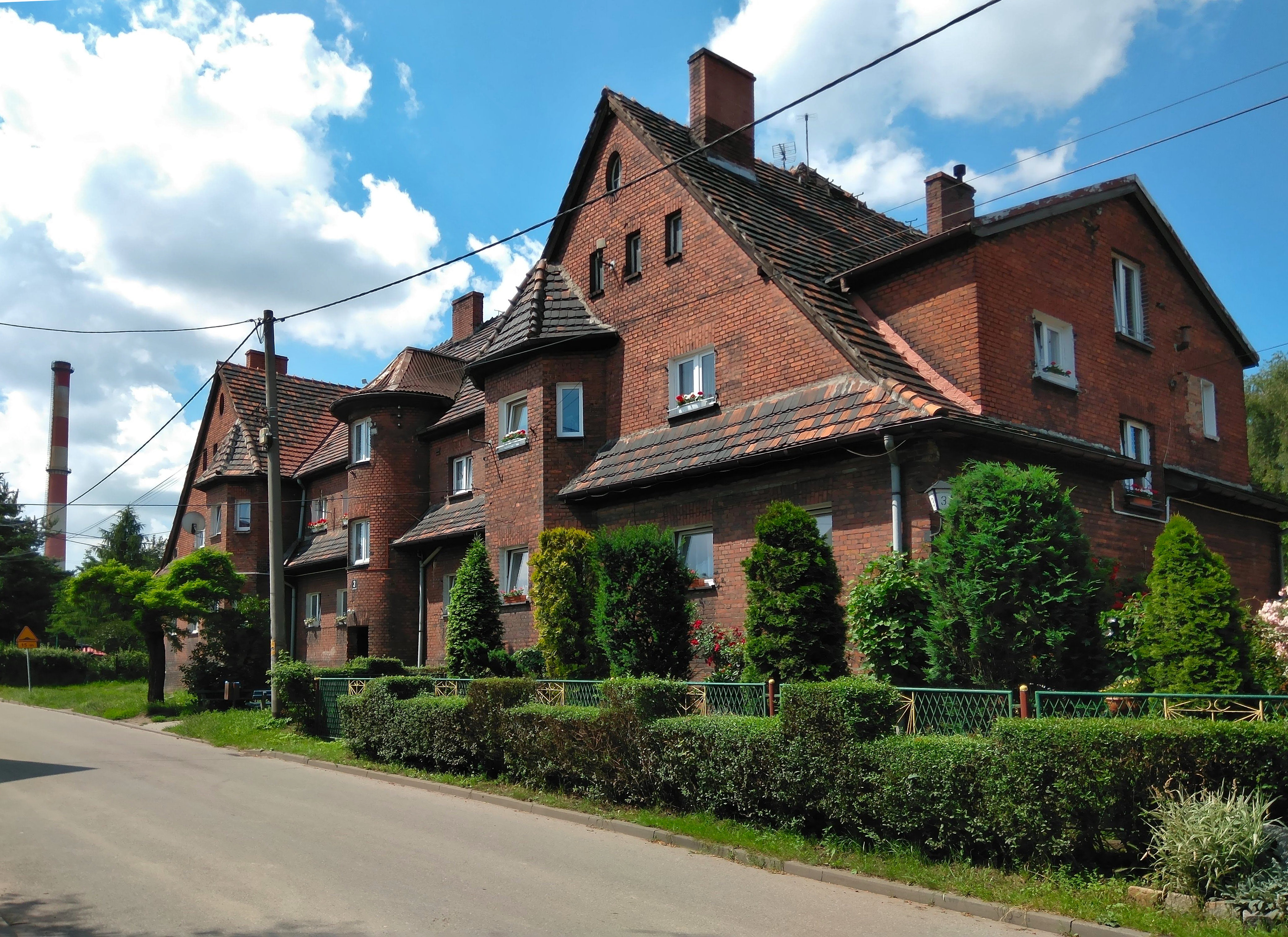 Emma (Marcel) workers' district in Radlin-Biertułtowy, Upper Silesia